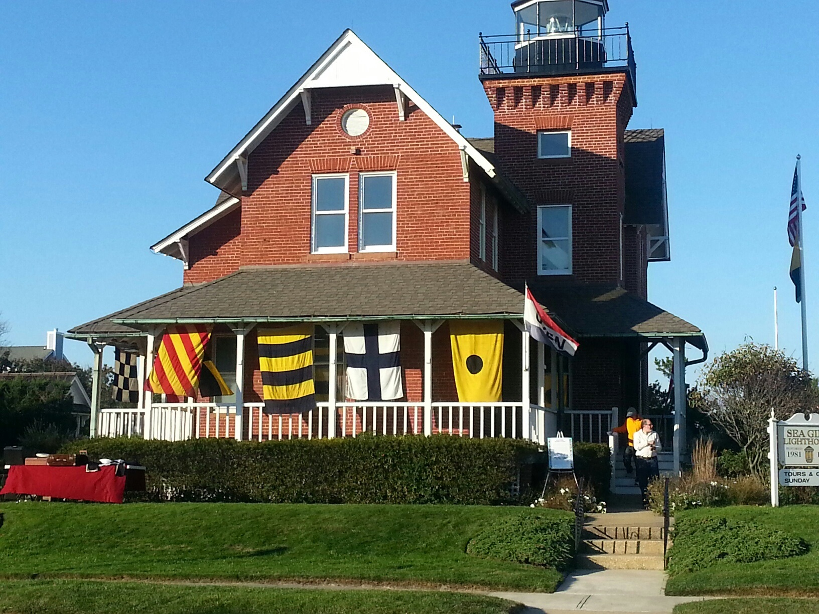 Picture of Sea Girt Lighthouse in Sea Girt, NJ.